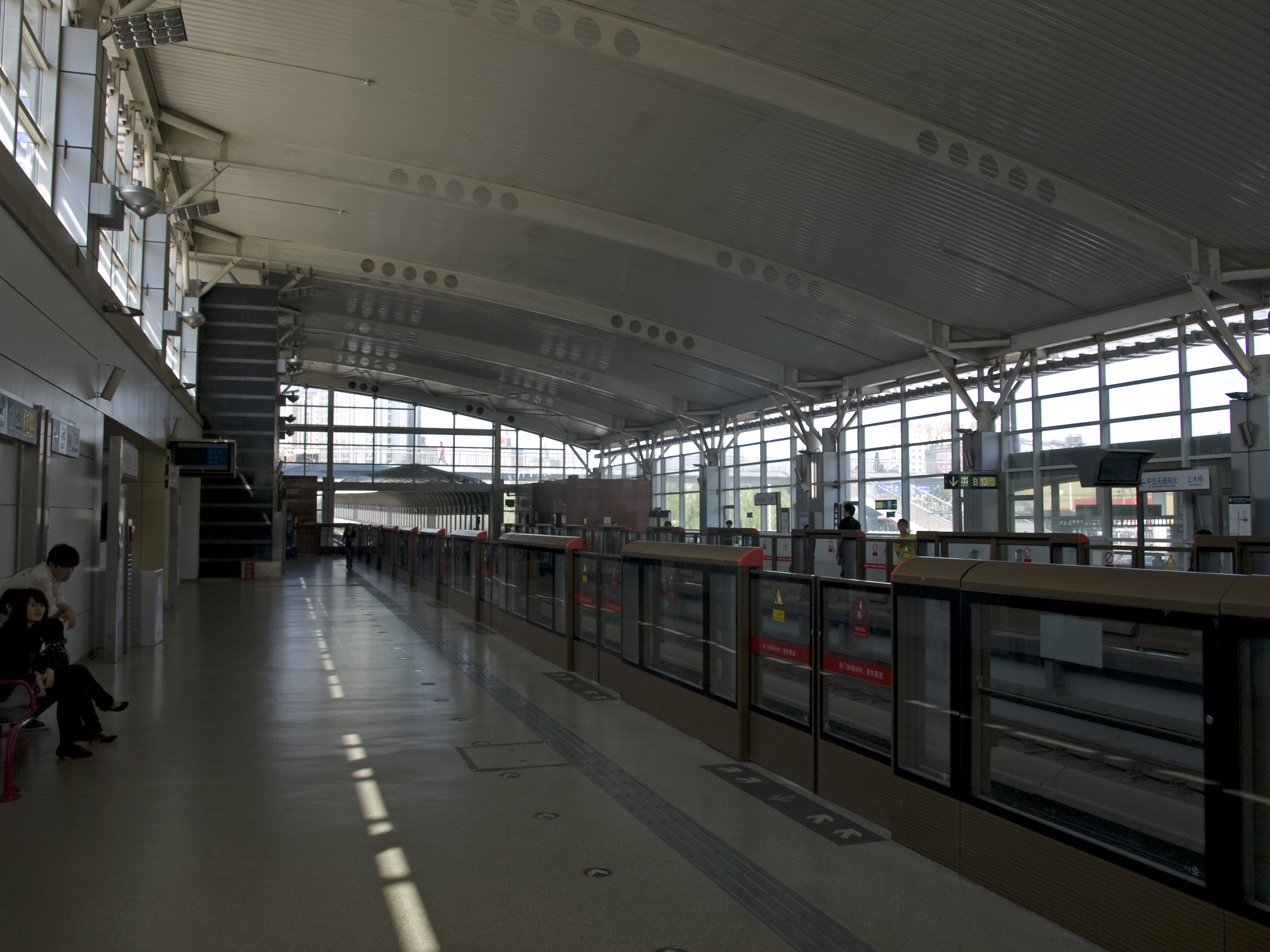 Lishuiqiao station (line 5), Beijing Subway